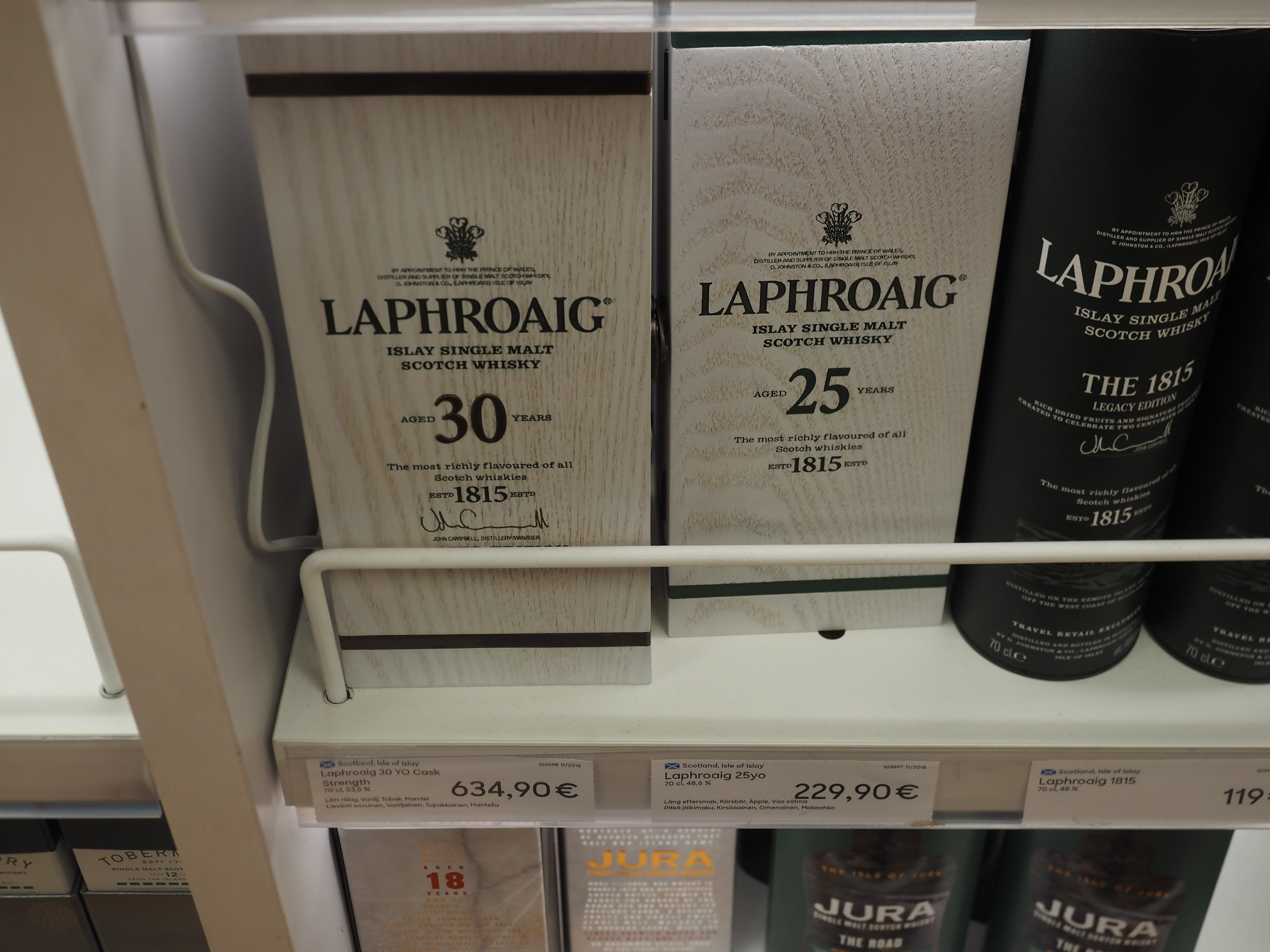 Two expensive Laphroaig whiskies on sale at the duty-free shop on Viking Amorella: Laphroaig 30-year-old for €634.90 (about SEK 7074, $679, £584) and Laphroaig 25-year-old for €229.90 (about SEK 2563, $246, £211). Needless to say I didn't buy either one.